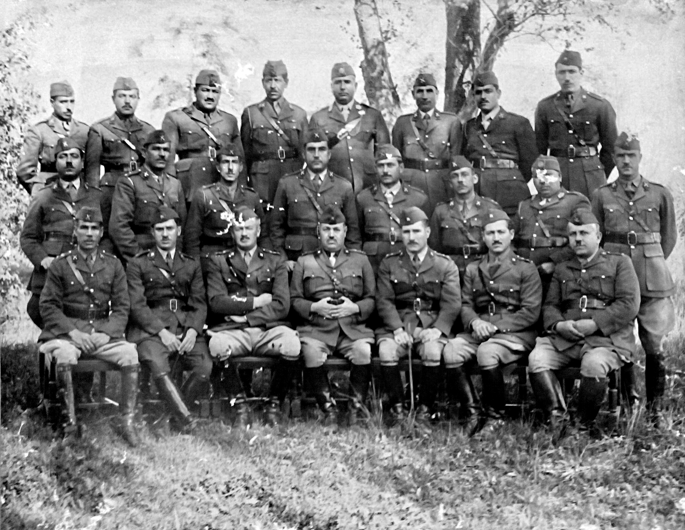 This photograph was taken on 10 February 1942 from the Military Staff College in Iraq, The third officer sitting in the right side is Muhammad Najib Ar-Ruba'i (1904-1965), He was the first President of Iraq (Chairman of Sovereignty Council) from July 14, 1958 to February 8, 1963.